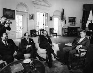 President John F. Kennedy (in rocking chair) meets with Foreign Minister of Pakistan, Zulfikar (Zulfiqar) Ali Bhutto. Seated (L-R): First Secretary of the Embassy of Pakistan, Mujahid Ali Jafri; Ambassador of Pakistan, Ghulam Ahmed; Minister Bhutto; and President Kennedy. An unidentified photographer stands at far left. Oval Office, White House, Washington, D.C.